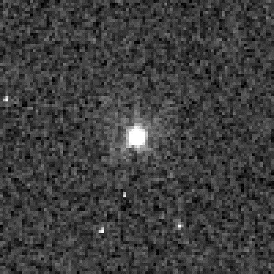 Hubble Space Telescope image of outer main belt asteroid 1042 Amazone, taken on 23 June 2013.